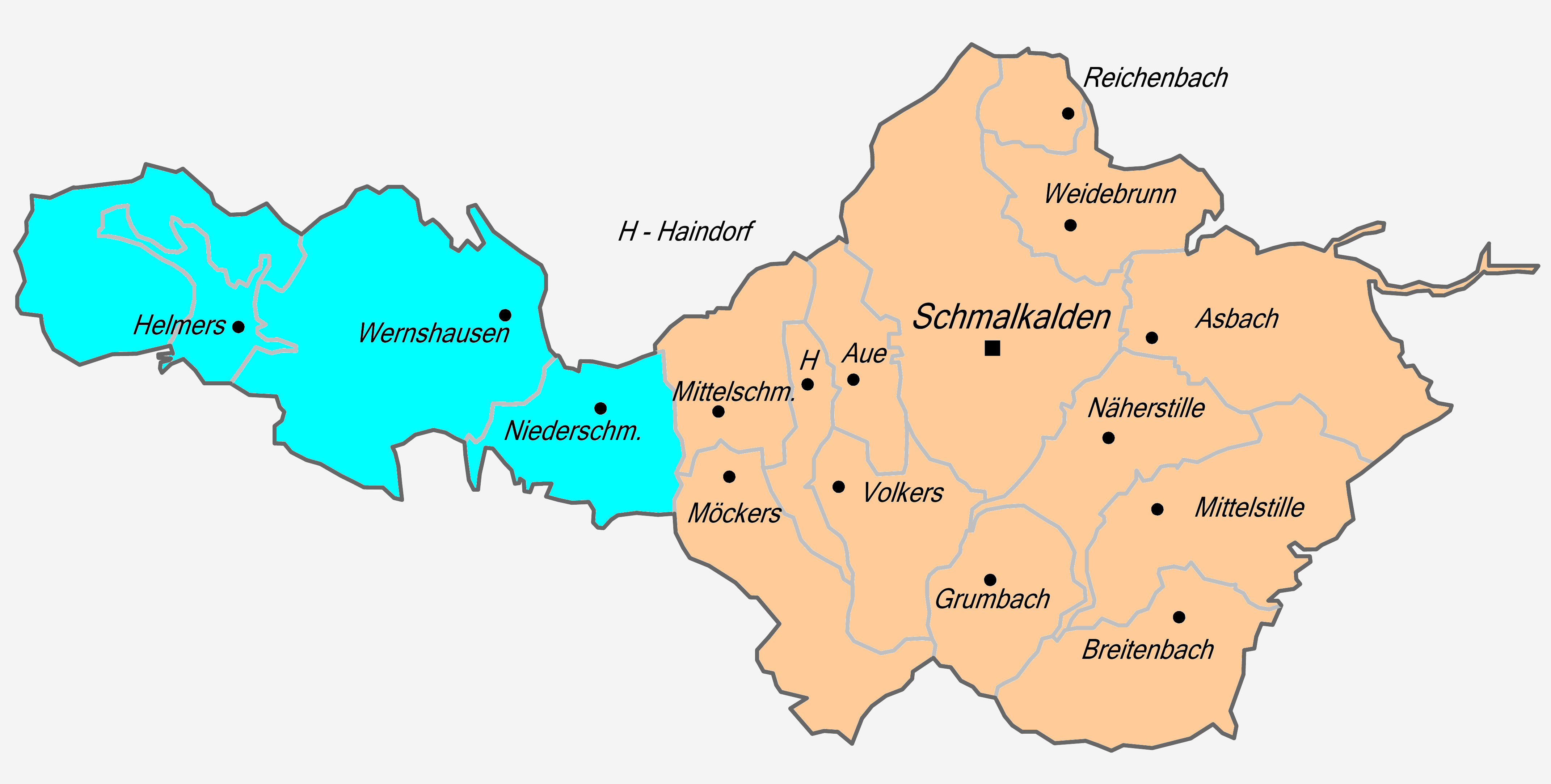 District-Maps of Schmalkalden